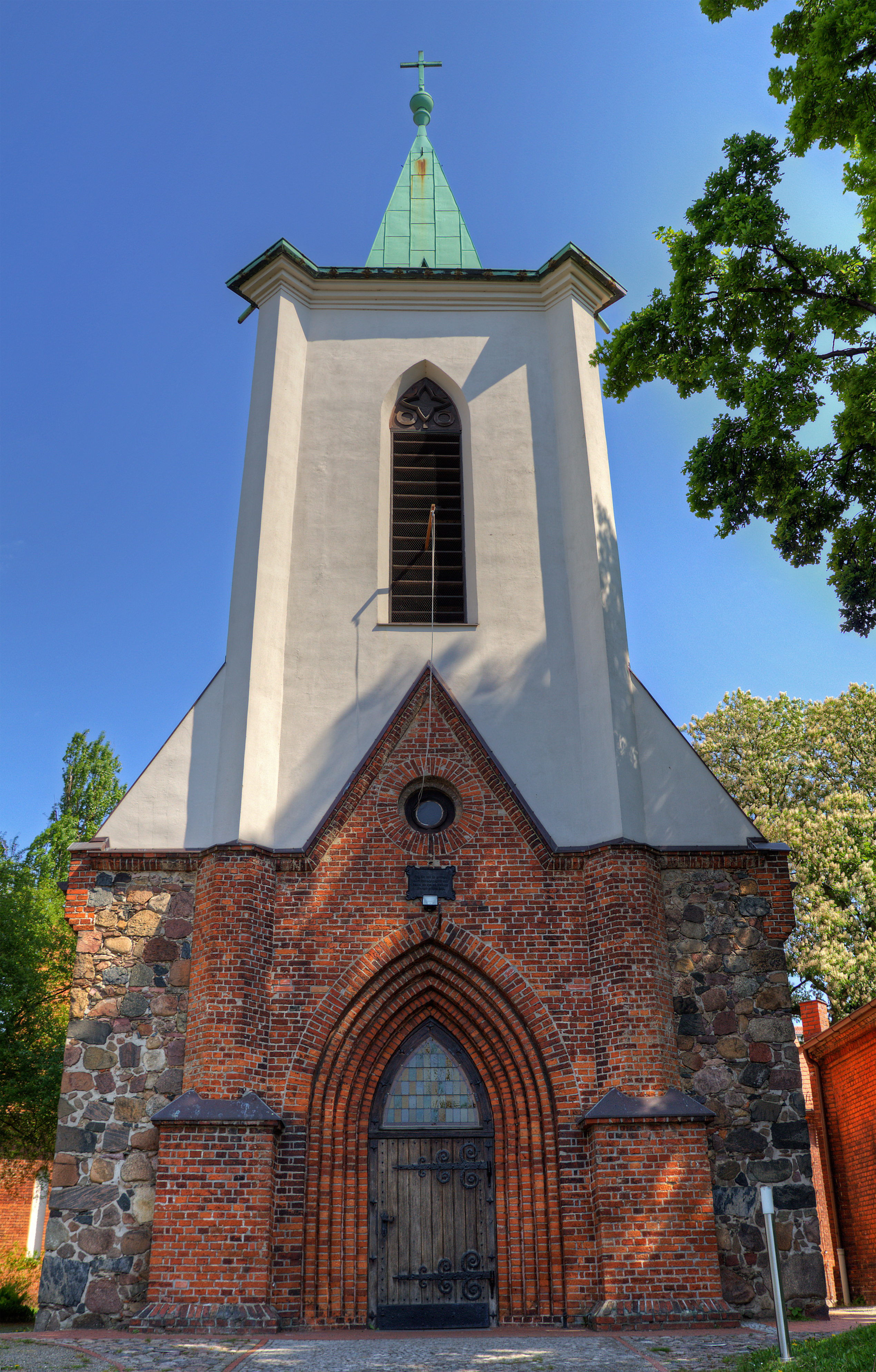 Berlin-Weißensee, Berliner Allee, village church